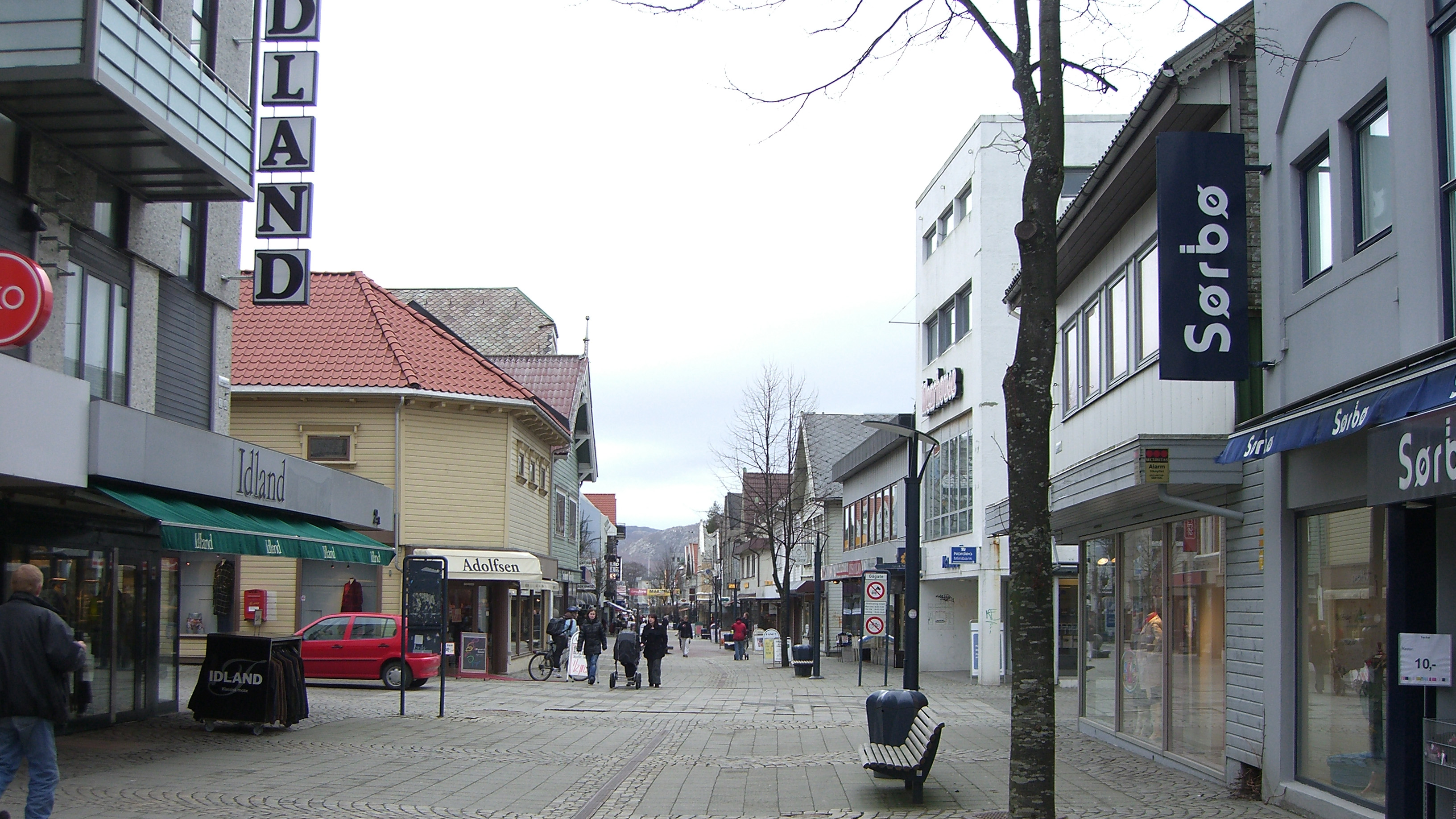 Langgata pedistrian street in Sandnes, Norway